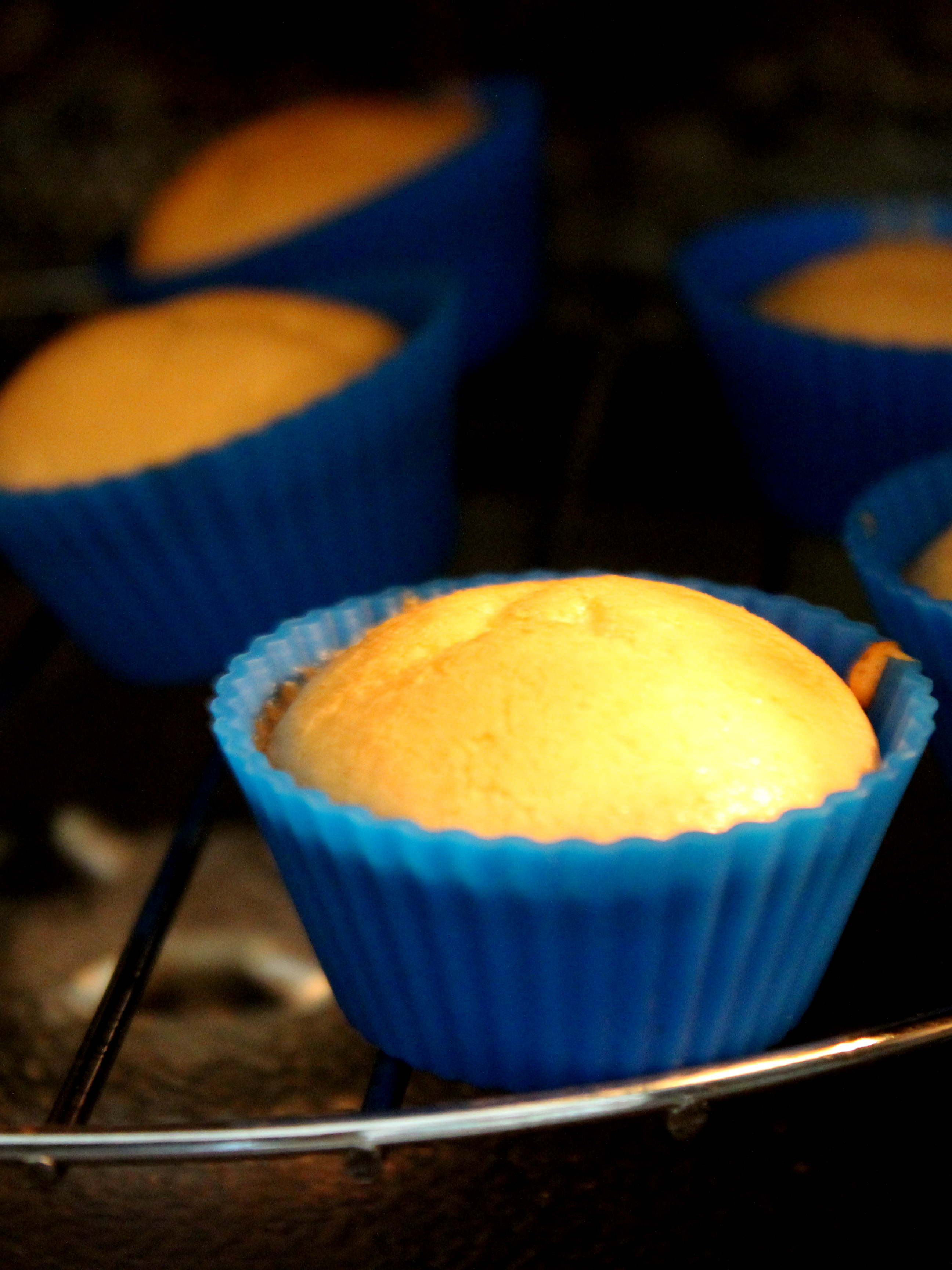 Vanilla sponge cupcakes in the oven